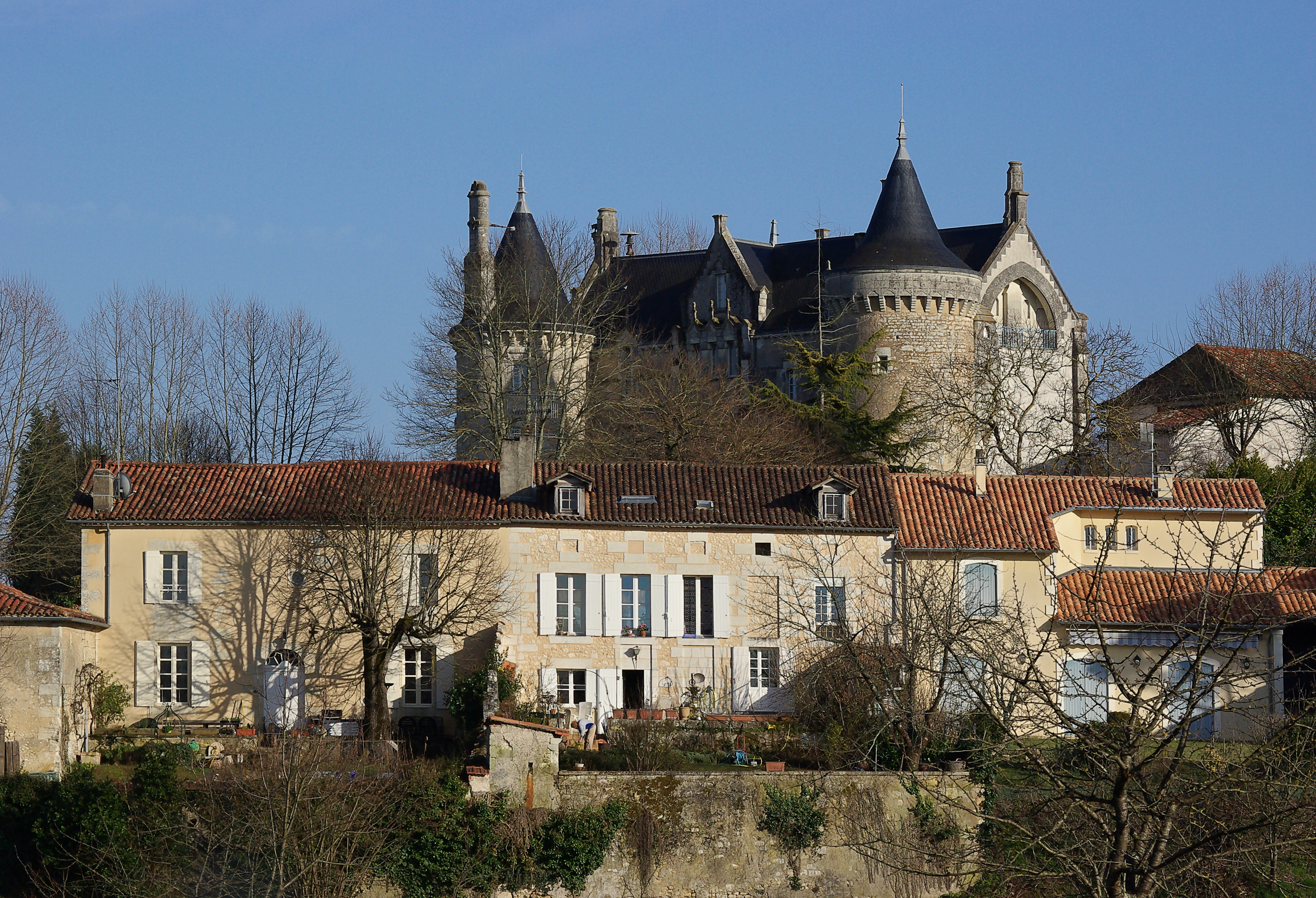 Castle (15th and 19th centuries) seen from West, above some village houses, Saint-Aulaye, Dordogne, France.